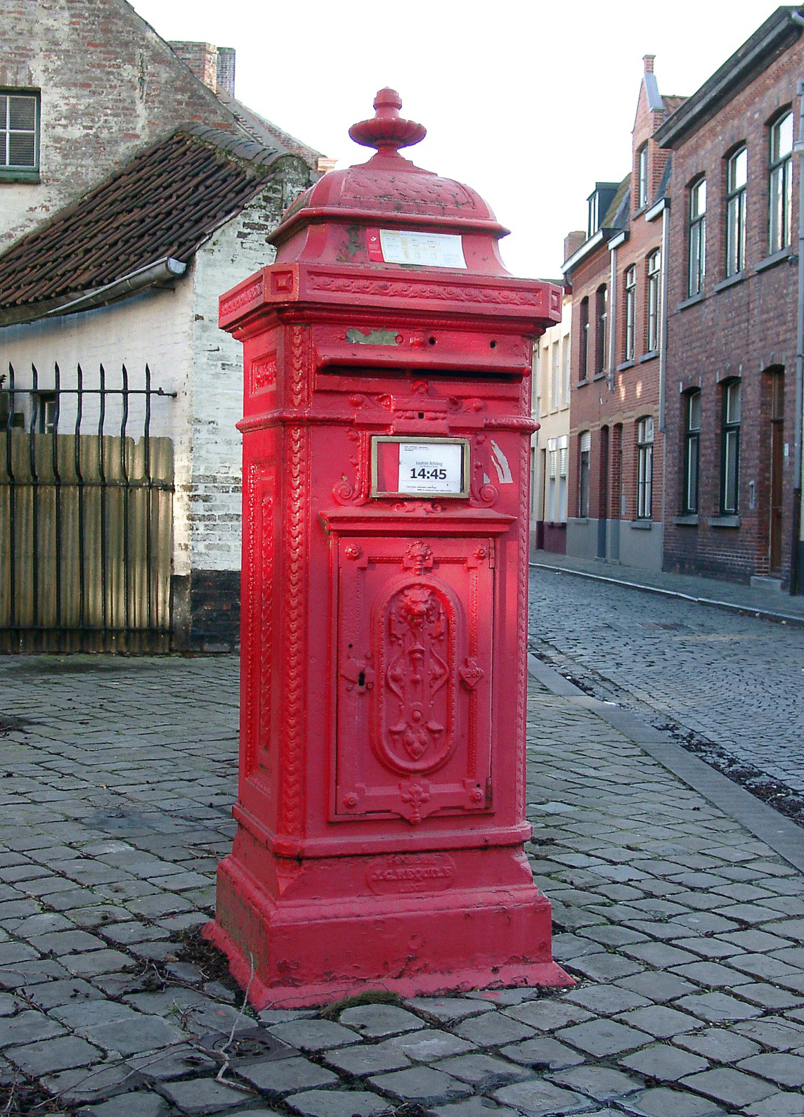 Pillar box in a street of Bruges, Belgium